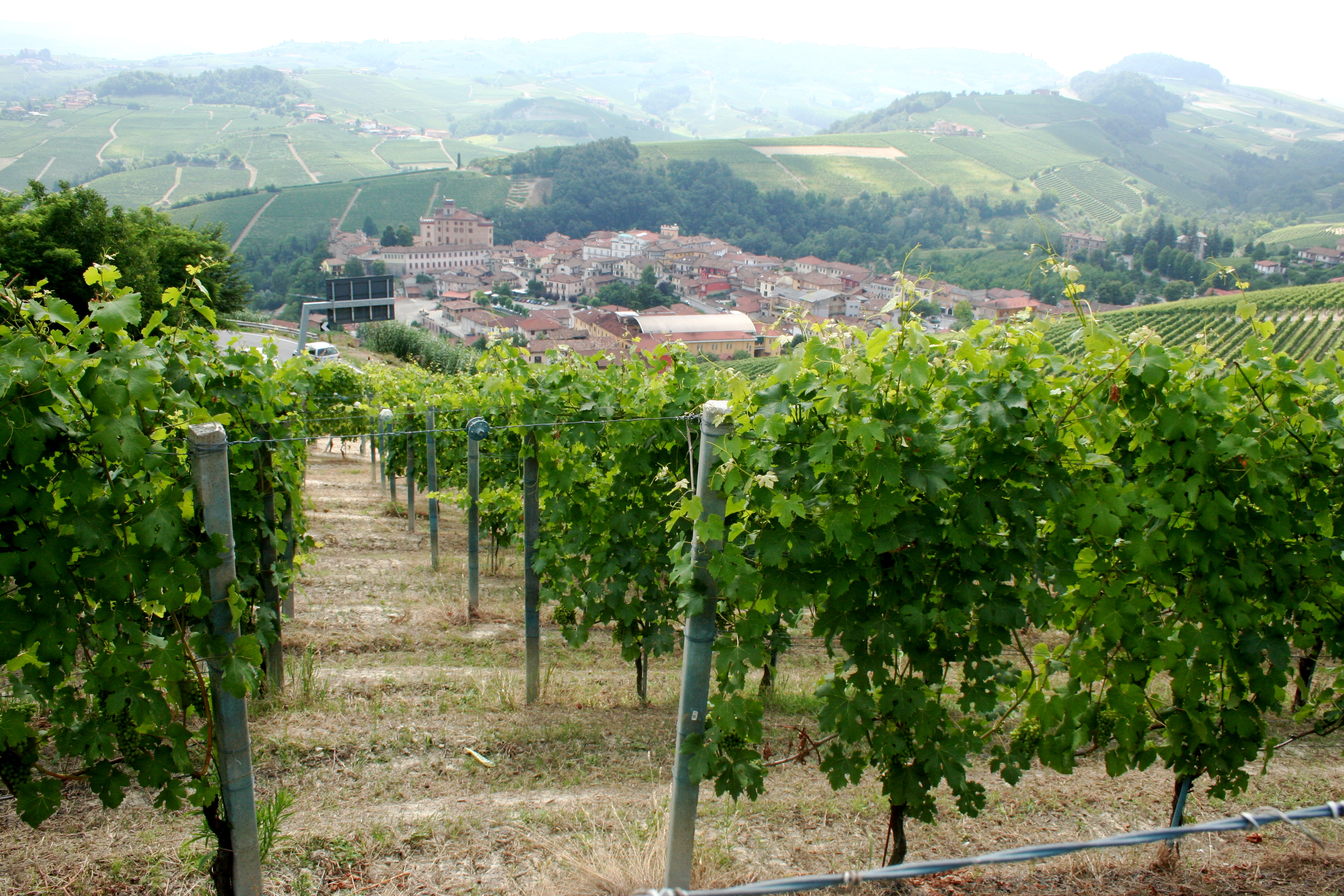 In the Italian wine region of Piedmont